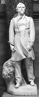 Statue of Lewis Wallace at NSHC